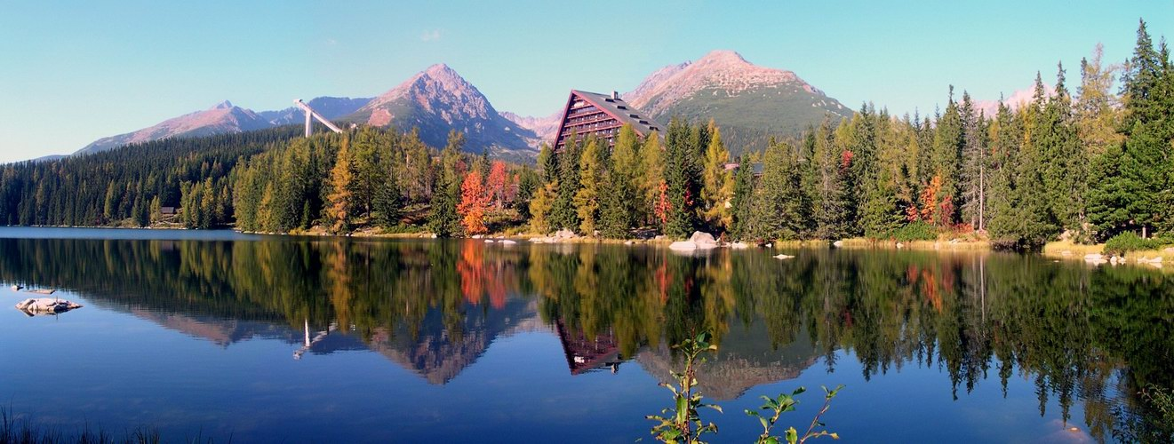 Štrba Lake, High Tatras, Slovakia